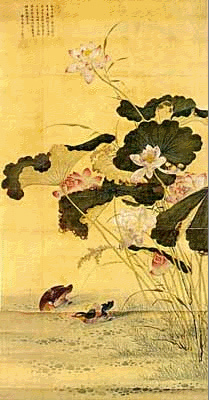 Yeonji ssangapdo Color on silk, 1760년 142cm x 72.5cm Ho-Am Art Museum, South Korea